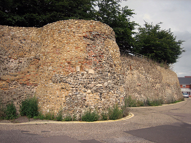 South-east corner of Colchester's Roman wall Now forming one side of a shoppers' car park ("Park, Pay, Display"). What would the Romans have made of that? Or did they have their own version of transport chaos?